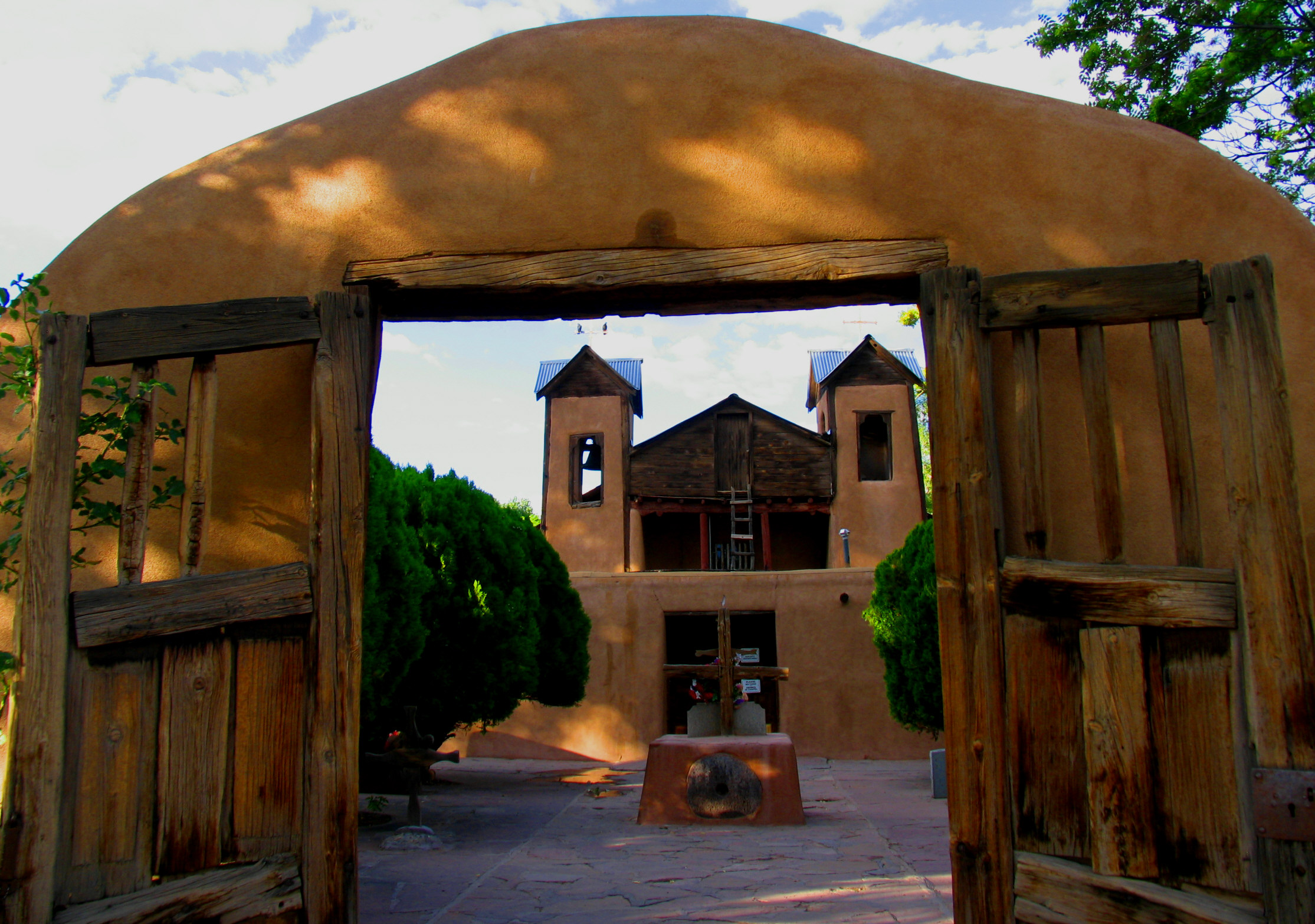 This is the Santuario de Chimayo, built in the 19th century and known for its healing properties...it was oficially closed when I got there..but I missed most of the tourists...will have to return to see the inside.....